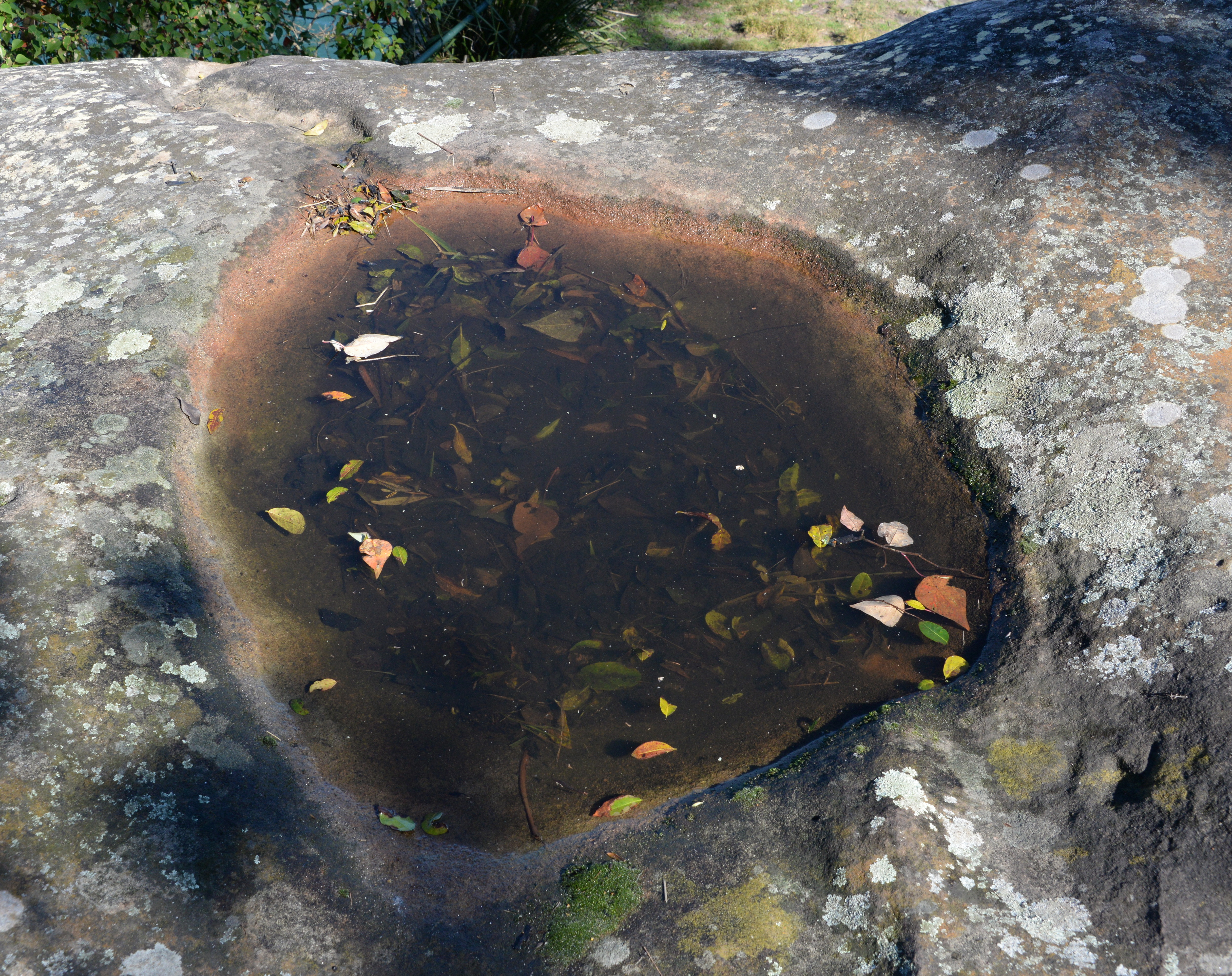 Waterhole probably created or enlarged by Aborigines, Balls Head Reserve, Waverton, Sydney